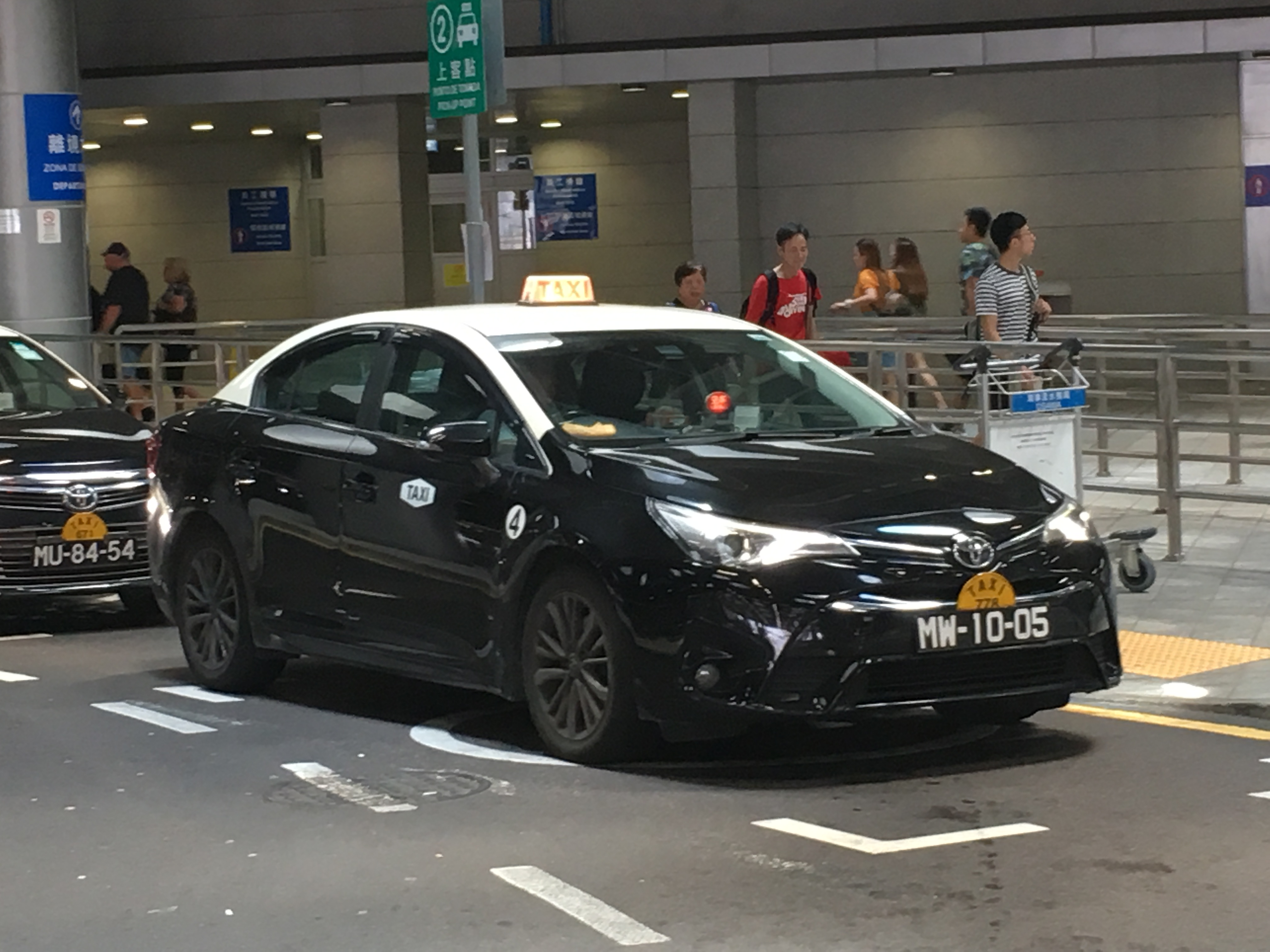 中文（香港）: This photo is taken in Taipa Ferry Terminal.